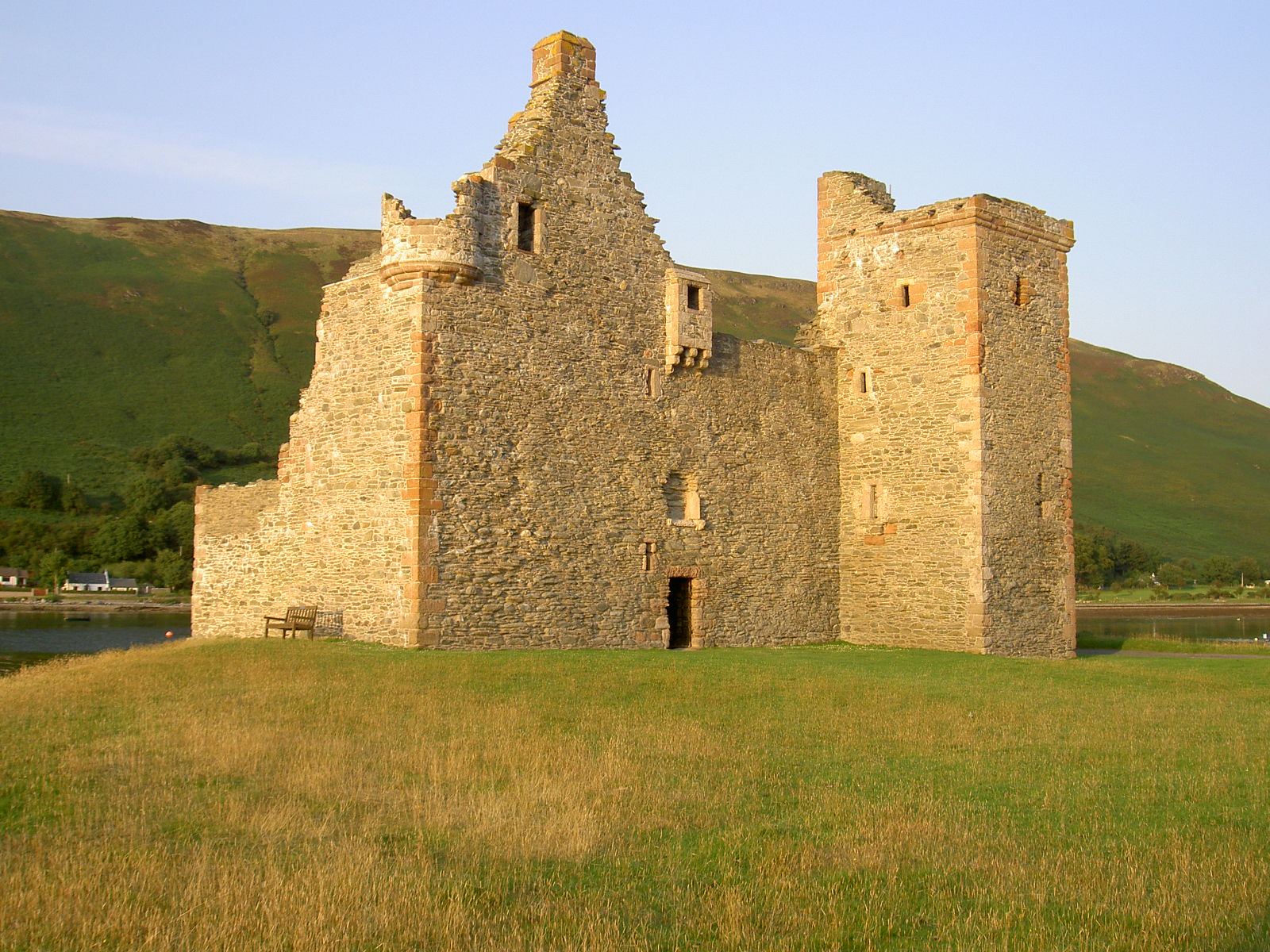 Lochranza Castle in the sunshine.